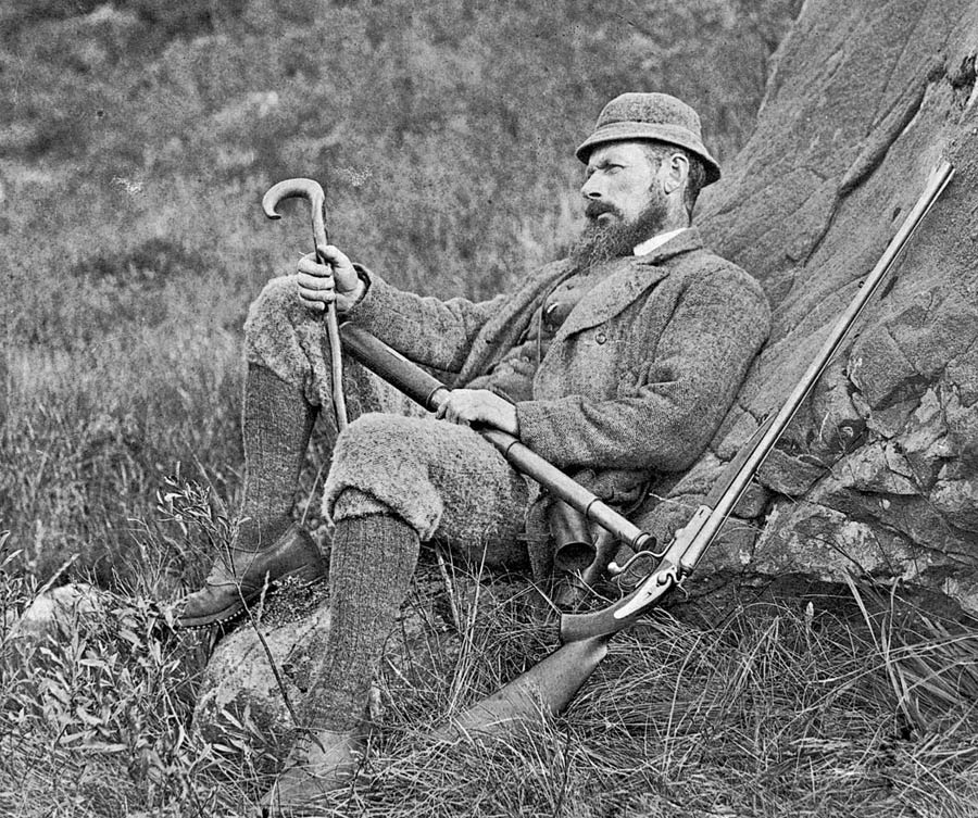 Donald Urquhart, head stalker on the Inverewe estate - Photo location: Inverewe, "This image comes from a collection gifted to Edinburgh Central Library by Dr Isabel F. Grant. The majority of the photographs were taken by Dr Grant but the collection also includes photographs taken by others."